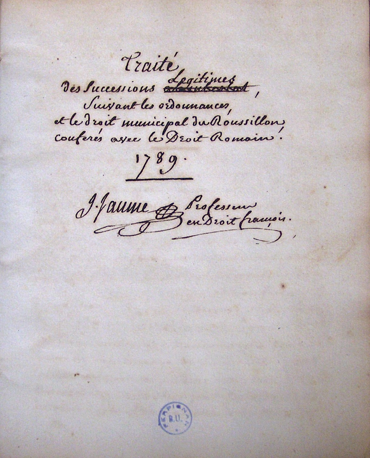 Cover of the manuscript Traité de successions by Joseph Jaume, universitary teacher of Law (Perpignan, XVIII century)